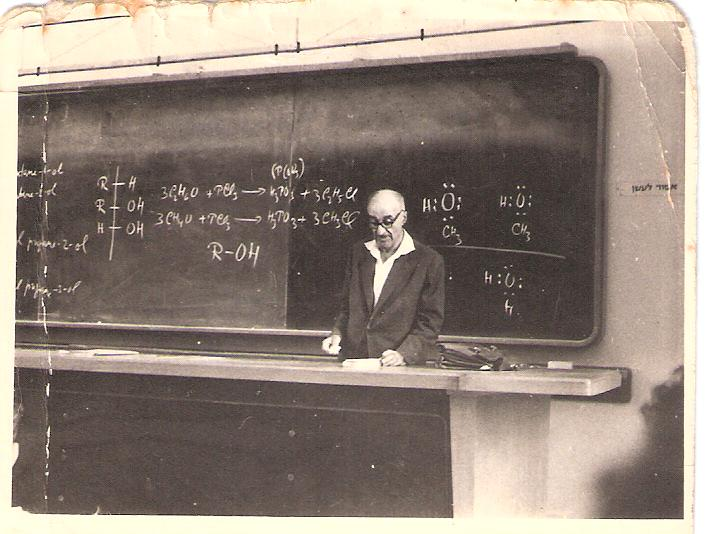 Professor Yeshayahu Leibowitz, Lecturing in the Hebrew University, Jerusalem